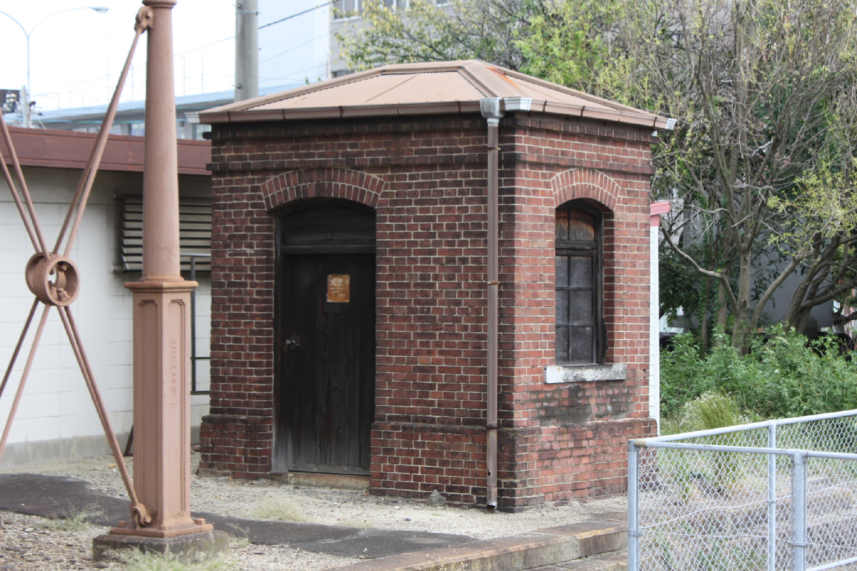 Storehouse at Handa Station, JR Central Taketoyo Line.